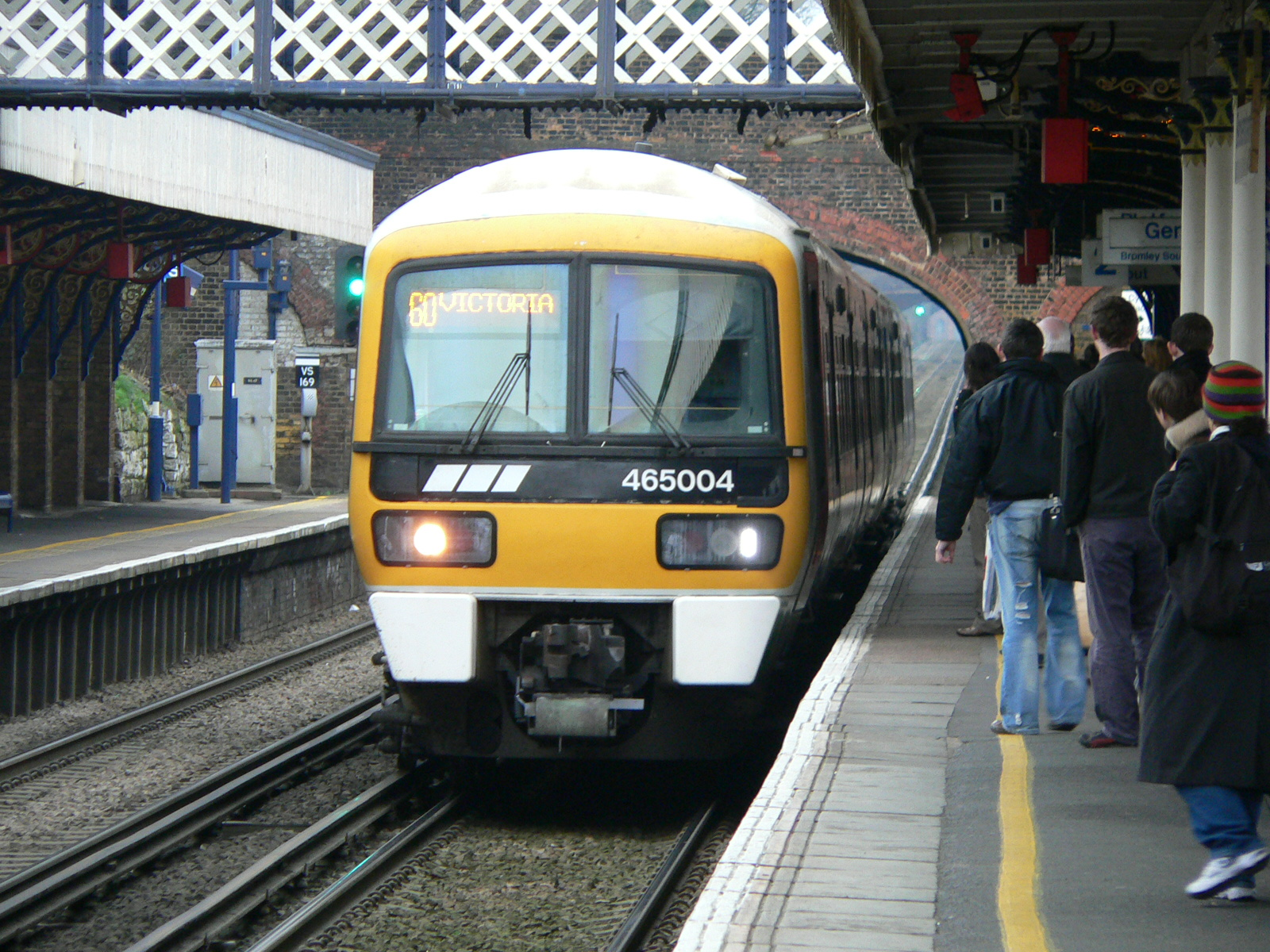 South Eastern Trains Class 465 EMU 465004 at Beckenham Junction station in south London with a suburban service to London Victoria.